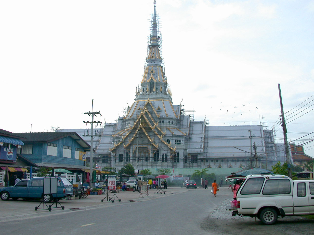 Wat Sothon Wararam Woravihan - Luang Po Sothon Chapel in Chachoengsao (Thailand)